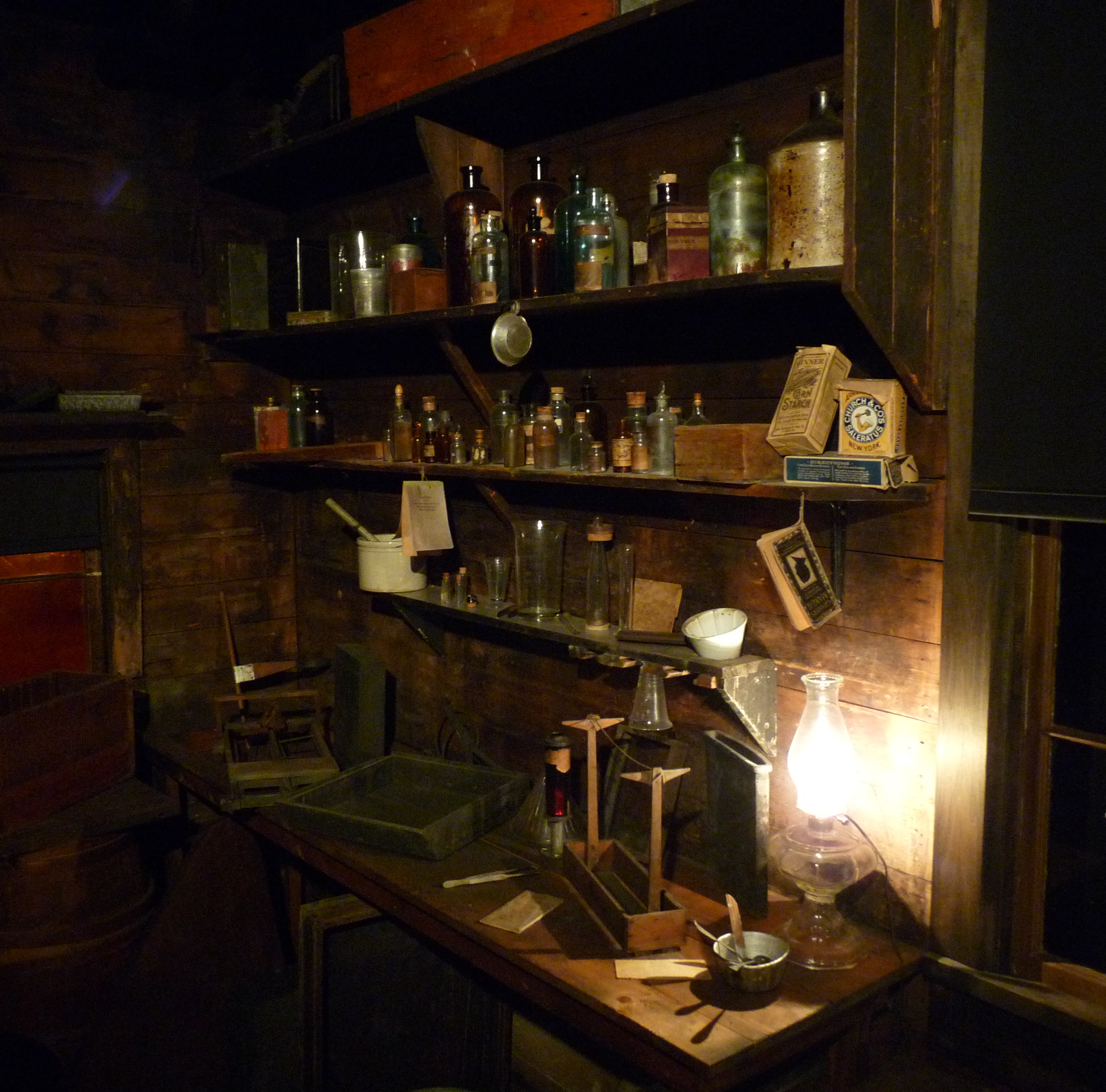 The H. H. Bennett Studio in Wisconsin Dells, Wisconsin is a photography studio built in 1875, from which Bennett popularized the Dells and devised photographic innovations. Today the historic studio is preserved and open to the public, a museum of the Wisconsin Historical Society, and is on the National Register of Historic Places.